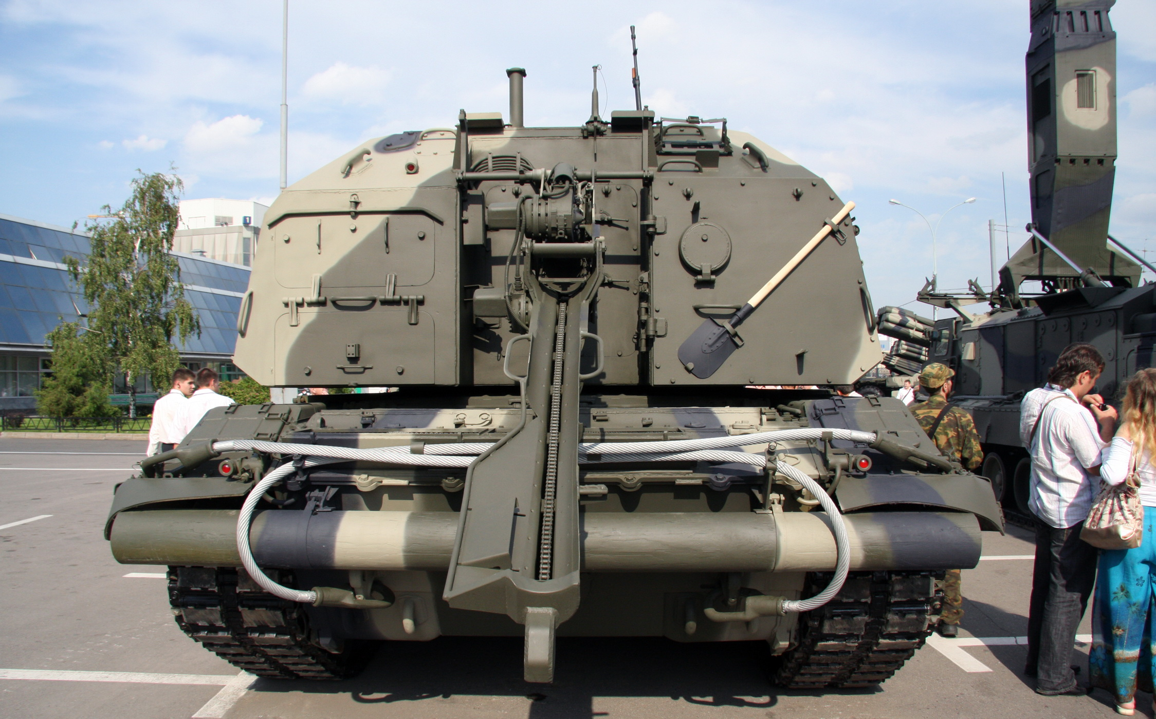 2S19 Msta-S